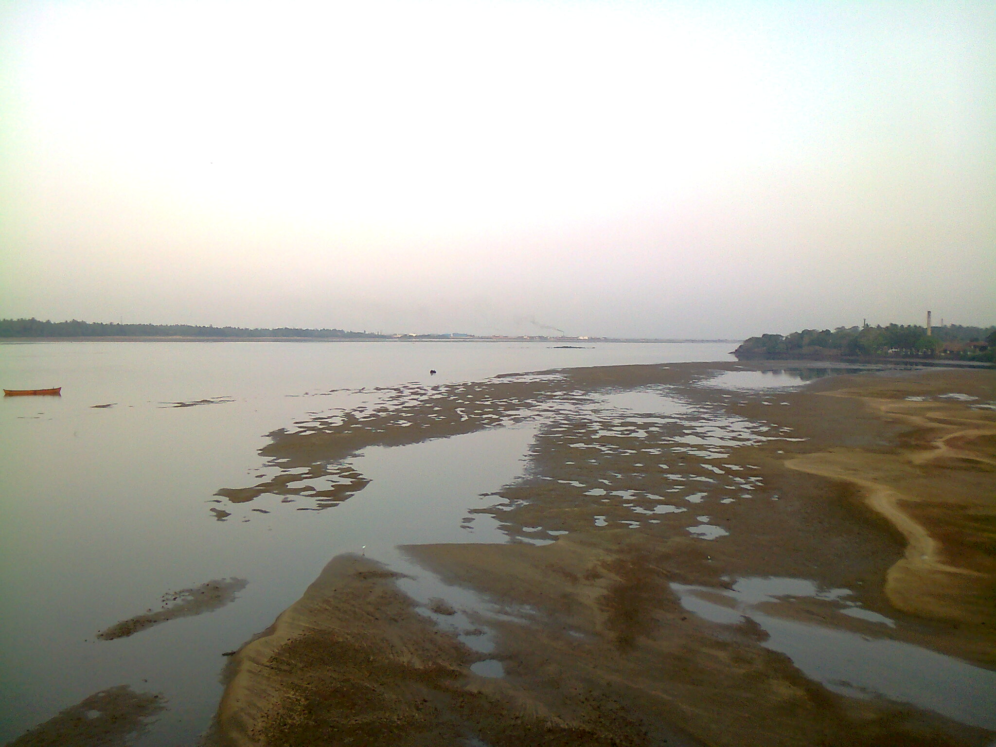 Nethravati River in Mangalore